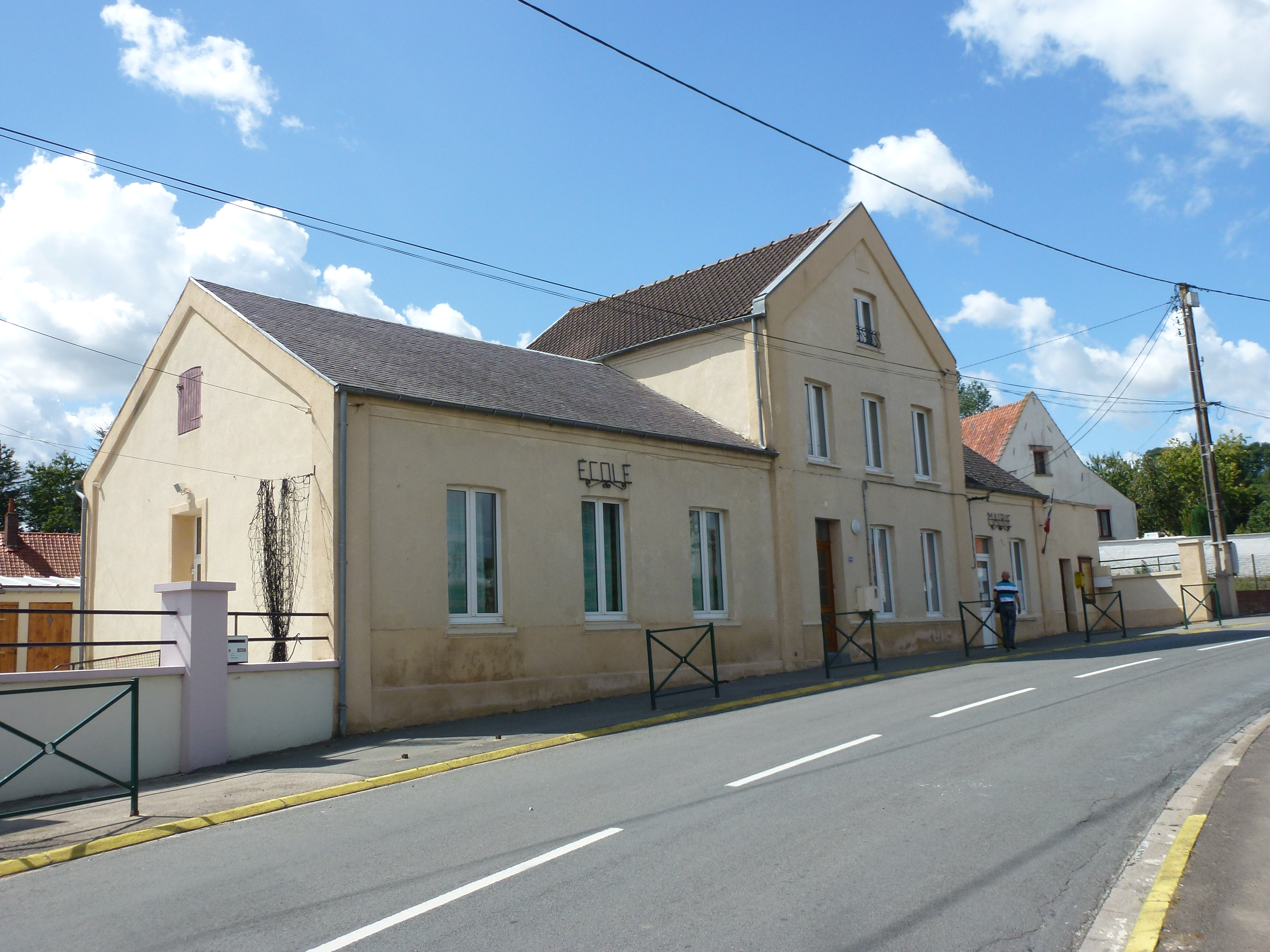 Saint-Martin-d'Hardinghem (Pas-de-Calais, Fr) mairie et école